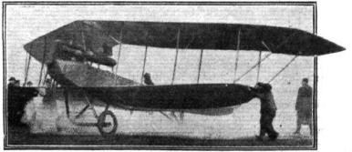 LFG (Roland) Arrow, the aircraft flown by Bernard Langer on a sixteen hour non-stop flight. An extra, non-standard fuel tank can be seen behind the engine.